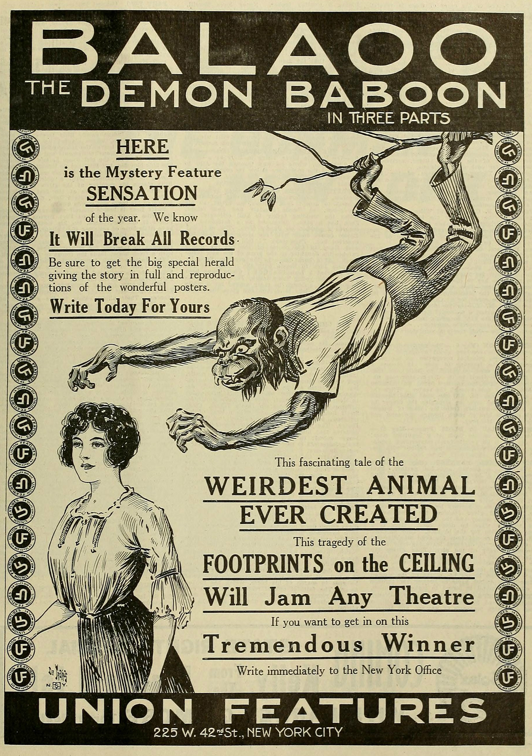 Poster for a three-reel movie based on a Gaston Leroux story